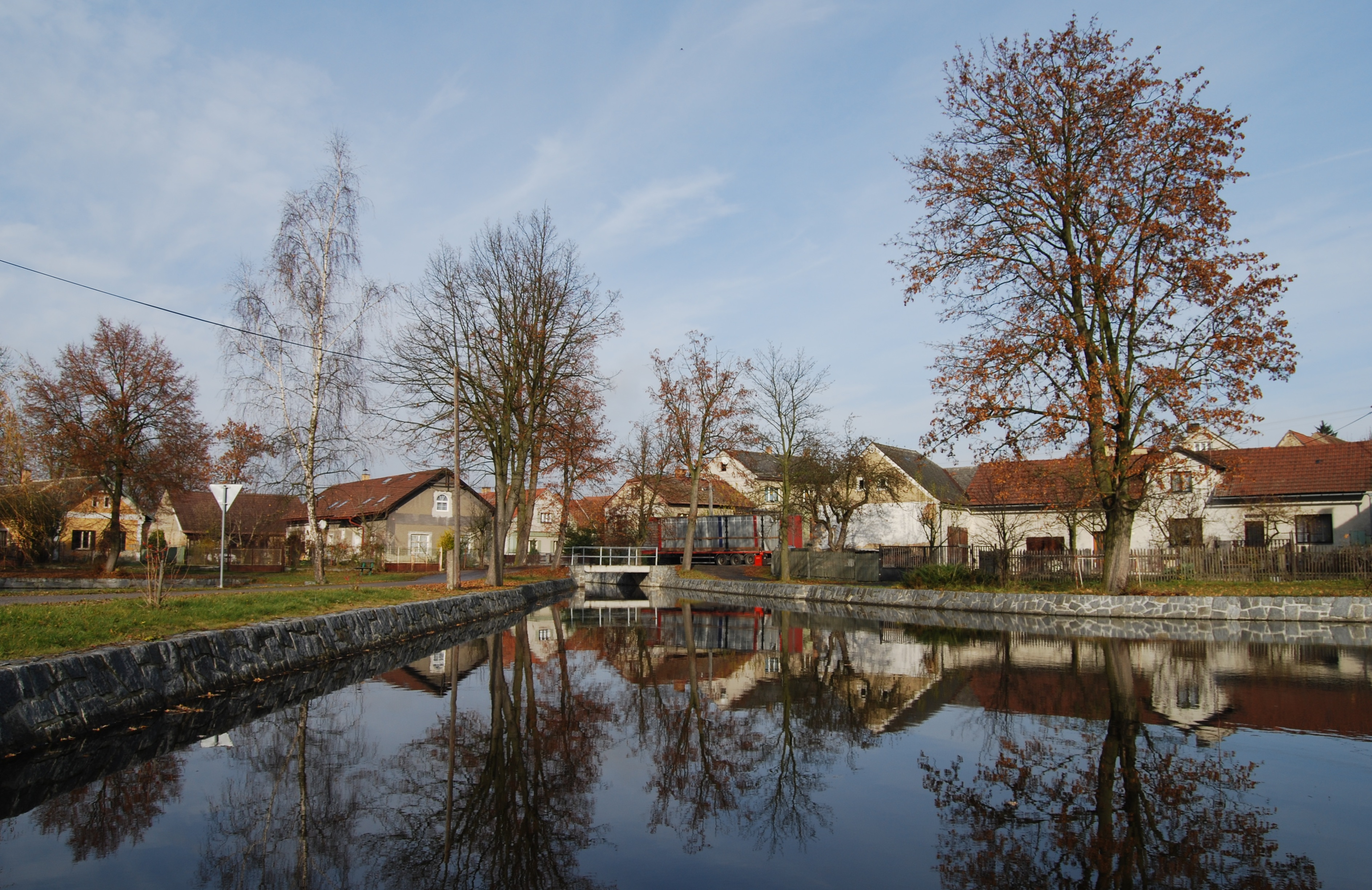 Hudčice village in Příbram District, Czech Republic. Small ponds on Mlýnský creek in village.